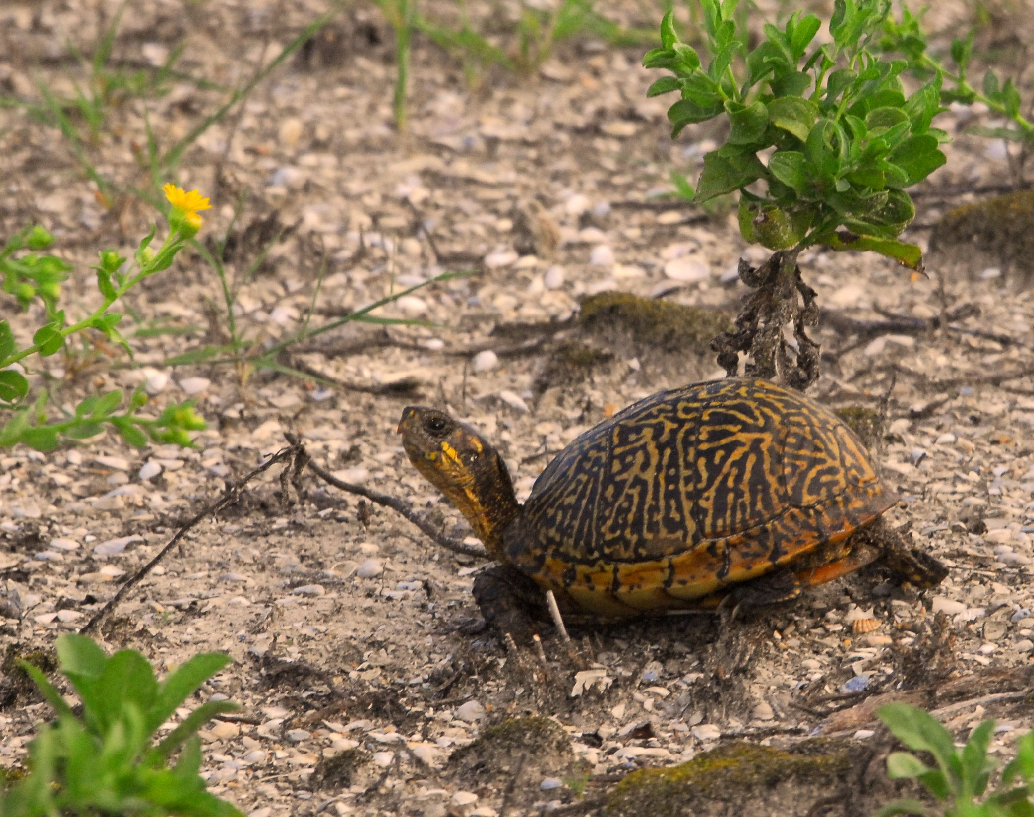 Florida Box Turtle — at Smyrna Dunes Park, Florida. "Thanks to ID by Photo's by the Swamper I now know I've seen my first Florida Box Turtle :) "